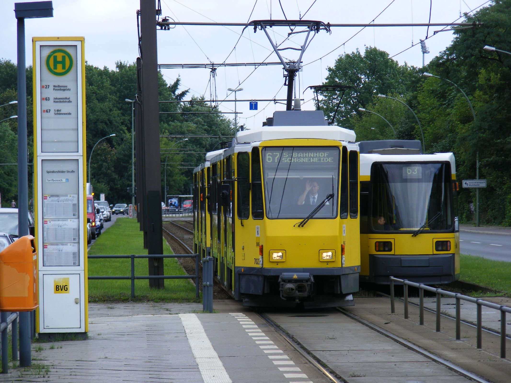 I think the tram driver is giving a Seid Bereit FDJ Pionier salute, prior to passing the Pioniereisenbahn at Wuhlheide park. Opposite this stop is the former, now derelict, Kulturhaus Ernst Grube. A Tatra KT4 2-unit set, with triebwagen 7027 leading on route 67 to S-Bahnhof Schoeneweide passes a more modern tram on ROute 63.